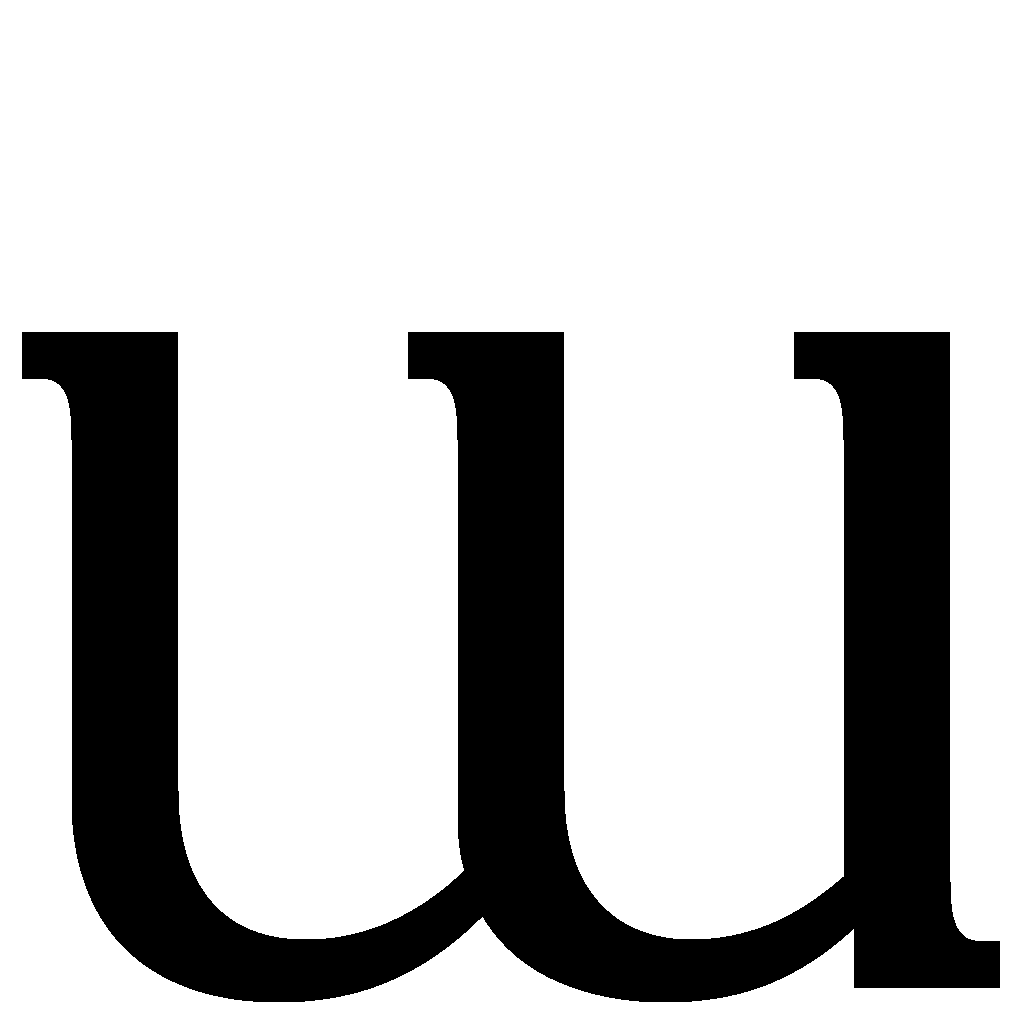 Armenian Small Letter Ayb